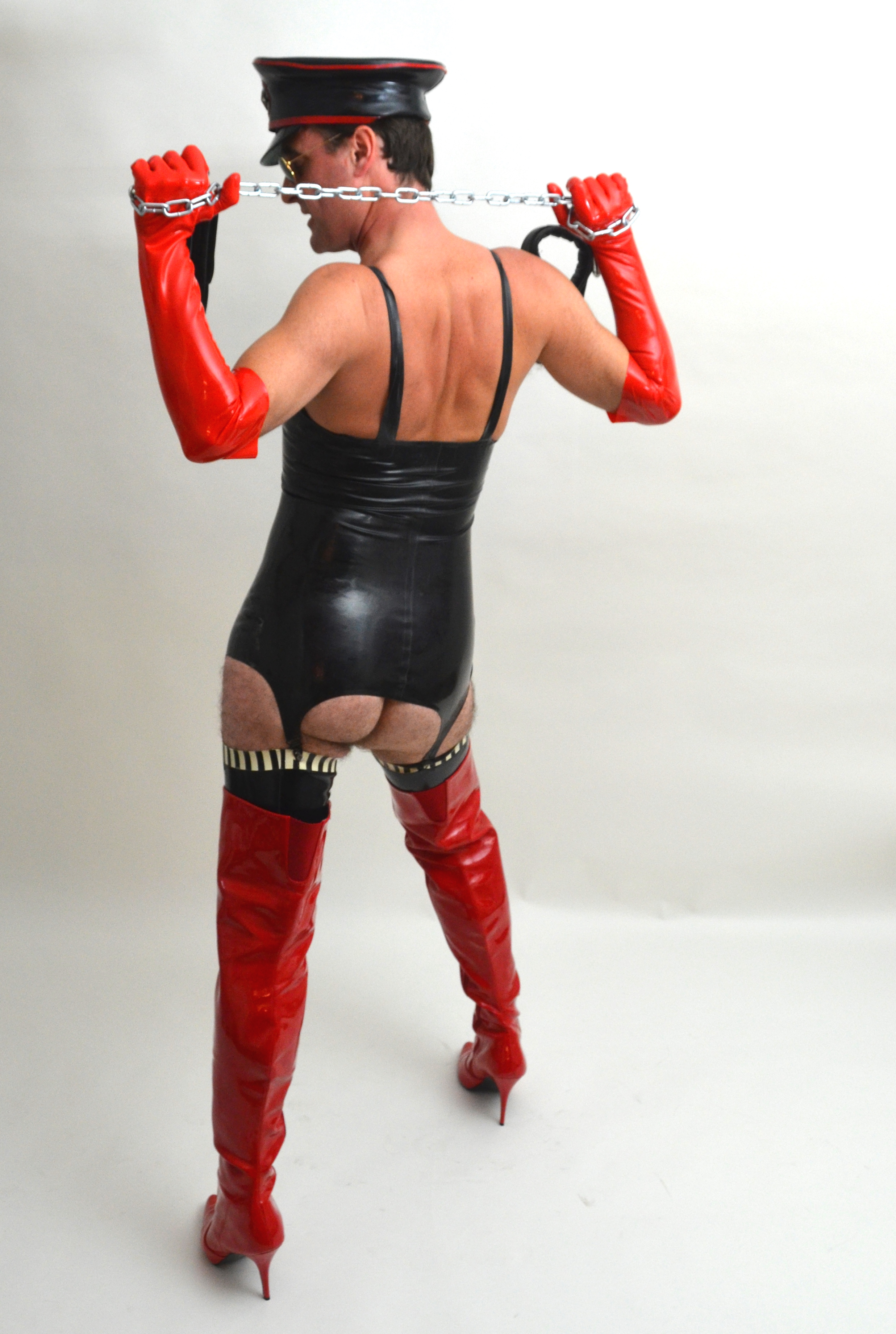 A gay male rubberist dominant wearing thigh boots and brandishing a chain.